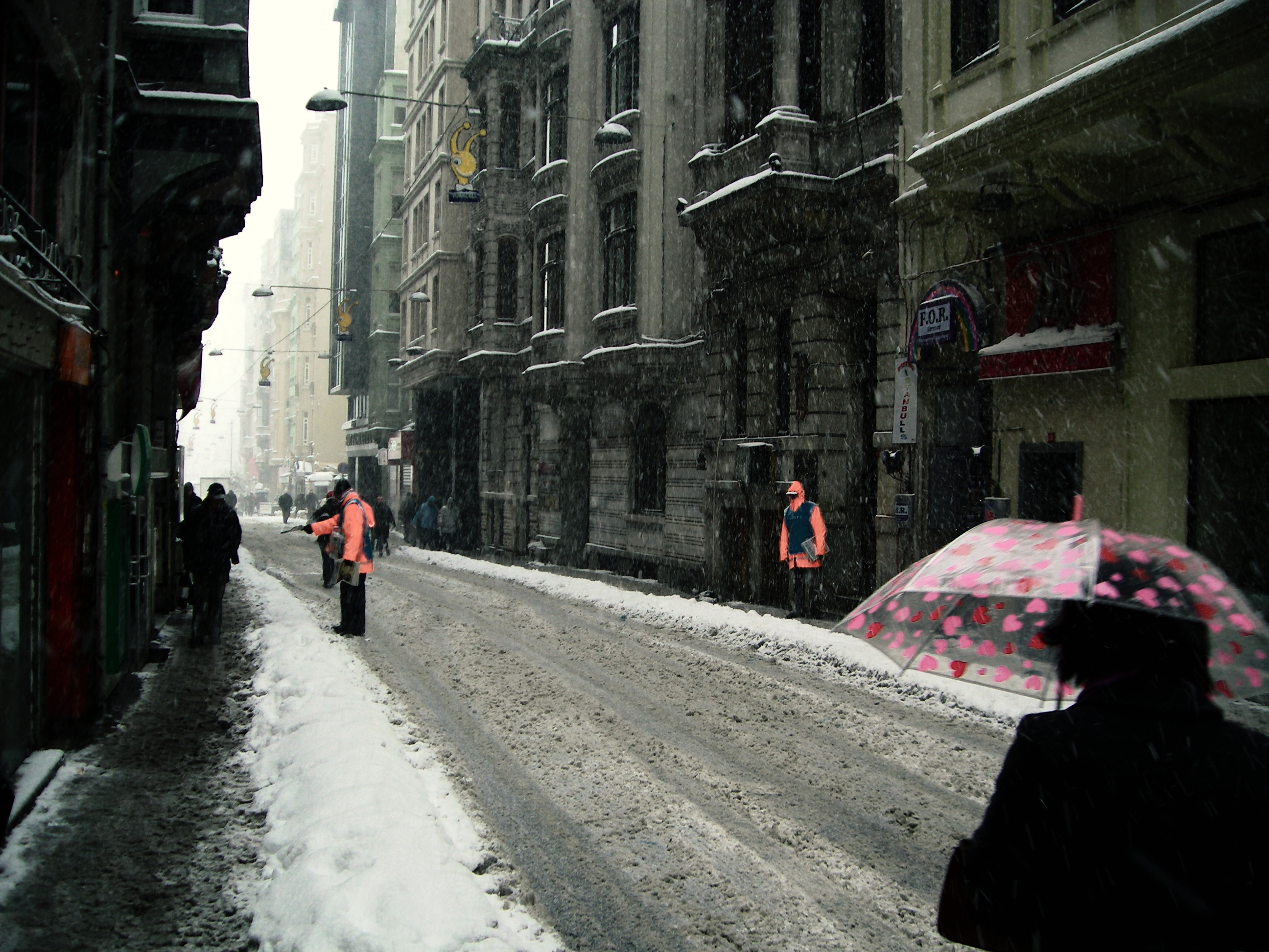 Snow on Siraselviler Cad, Istanbul, in 2008